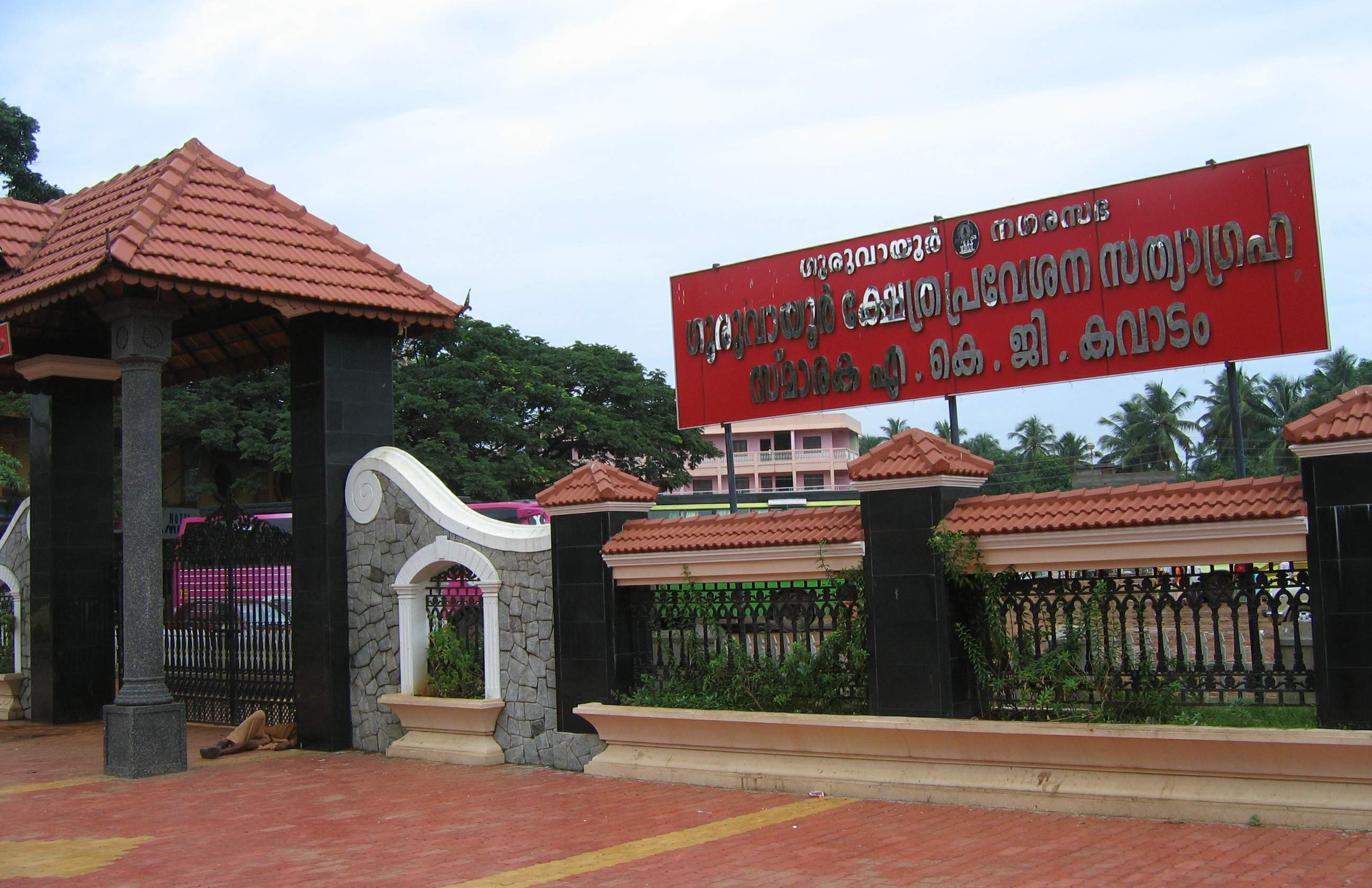 Sathyagraha memorial at Guruvayur